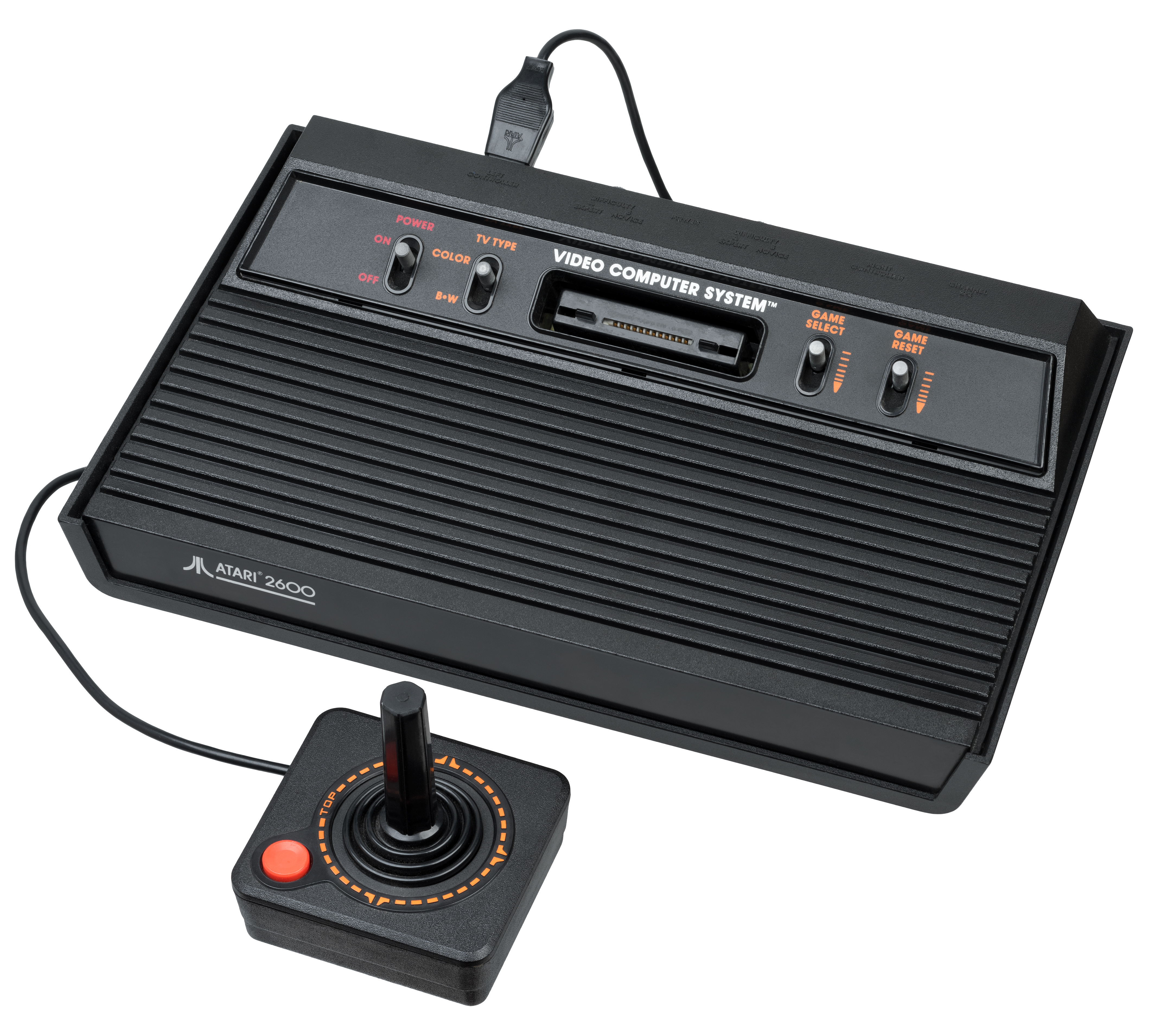 An Atari 2600 video game console, shown in all black. Also known as the "Darth Vader" version that came after the wood veneer version.